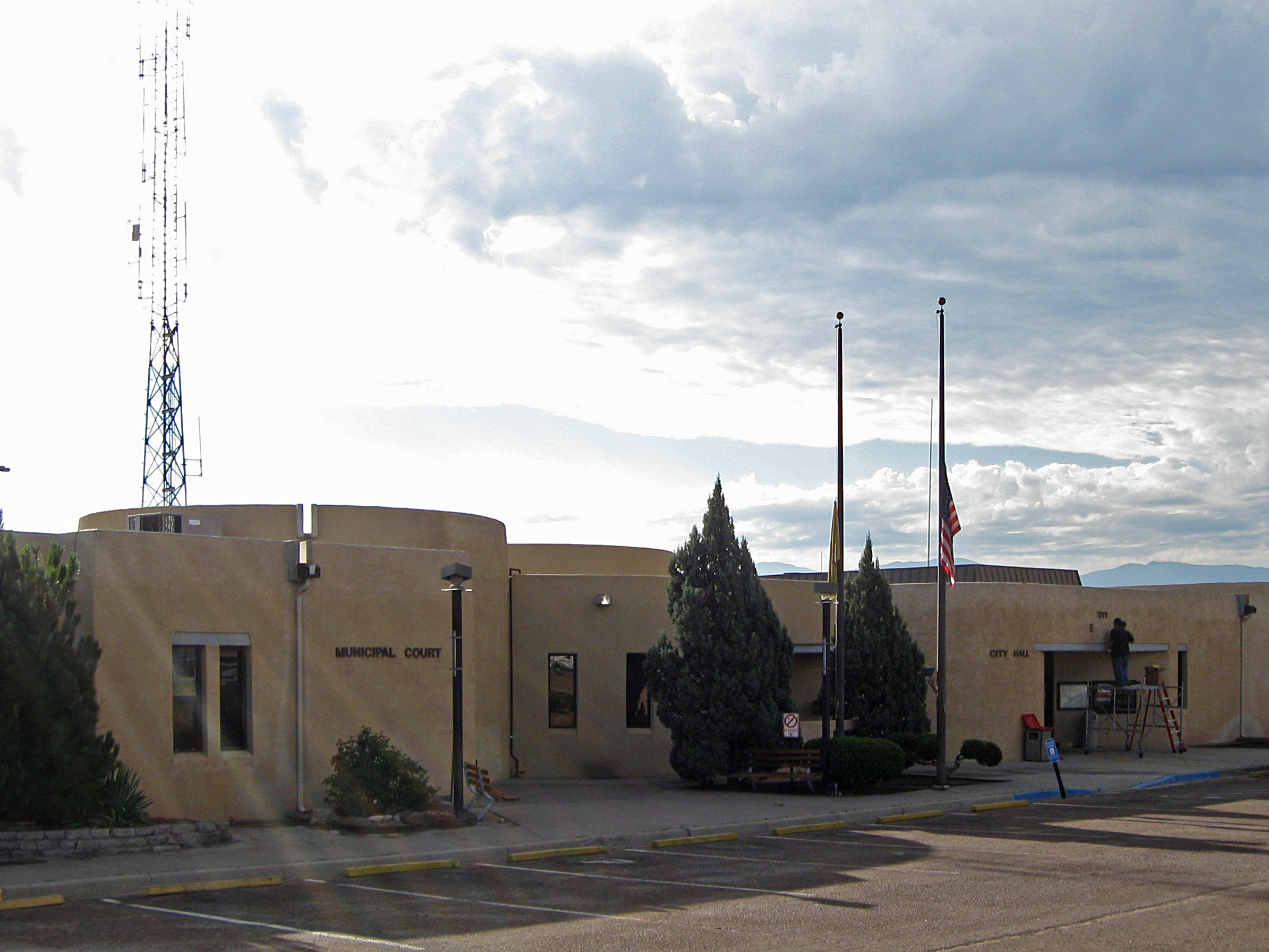 Española (New Mexico) City Hall, located at 405 N. Paseo de Oñate.